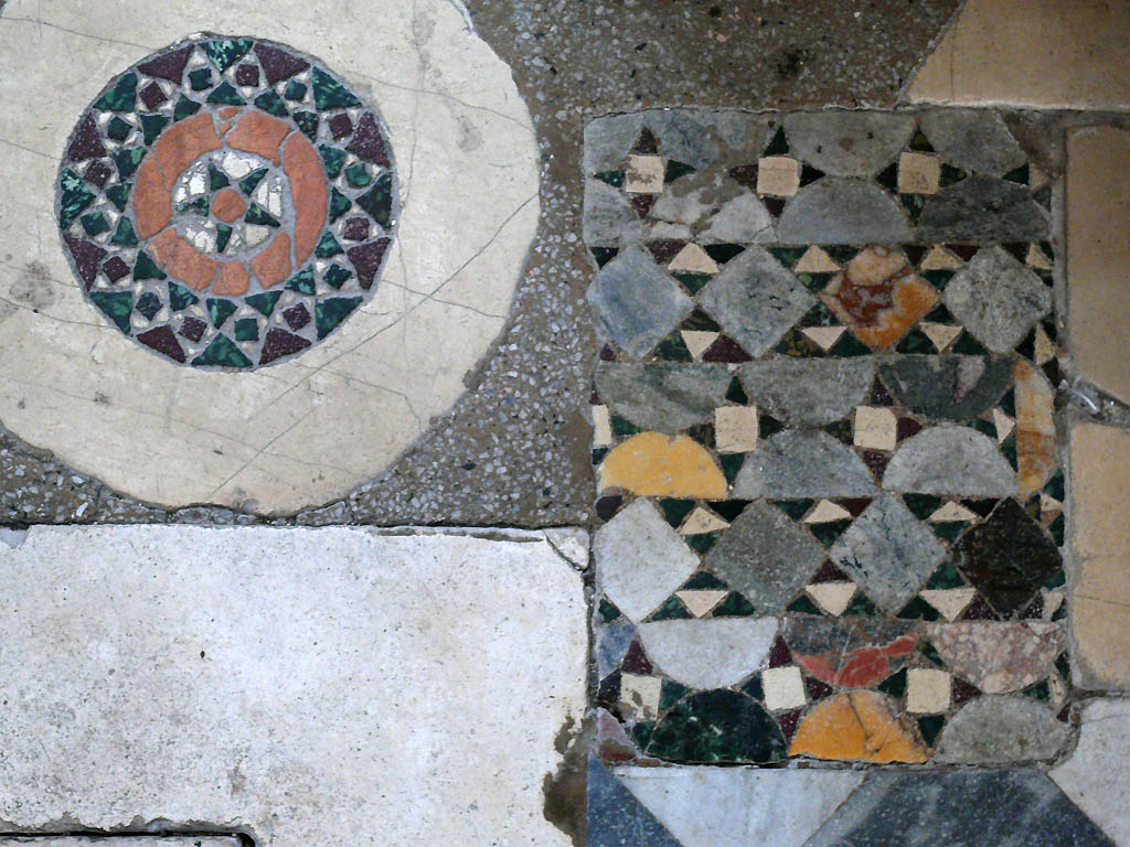 Cosmatesque pavement - asle floor of the Cathedral of Spoleto